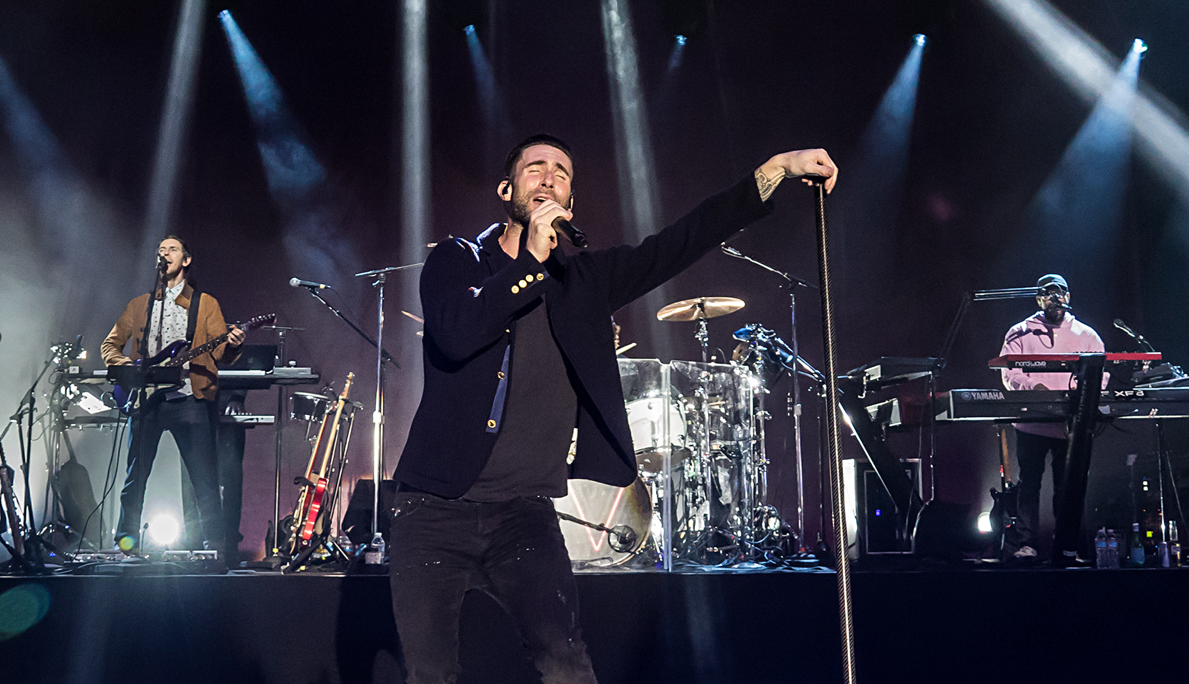 Maroon 5 at the Airbnb Open Spotlight